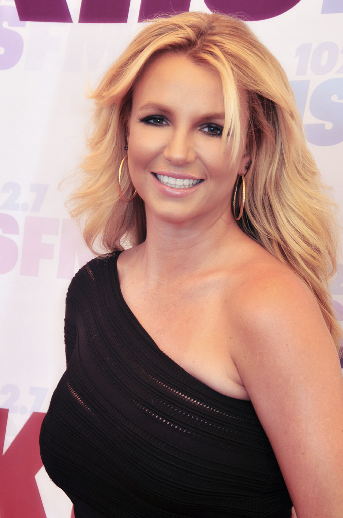 Britney Spears, Carson, California on May 11, 2013 - Photo by Glenn Francis of